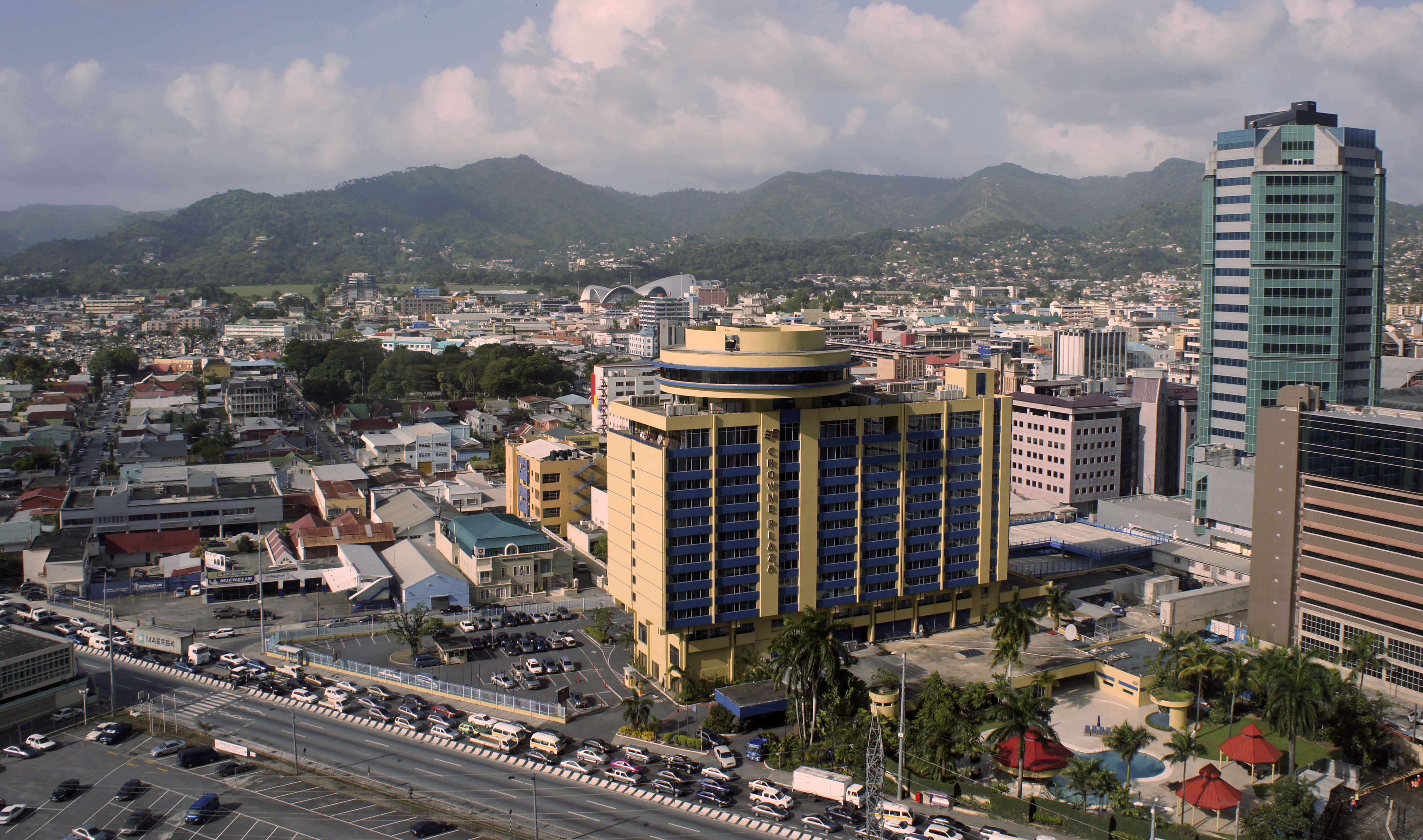 Port of Spain, Trinidad and Tobago